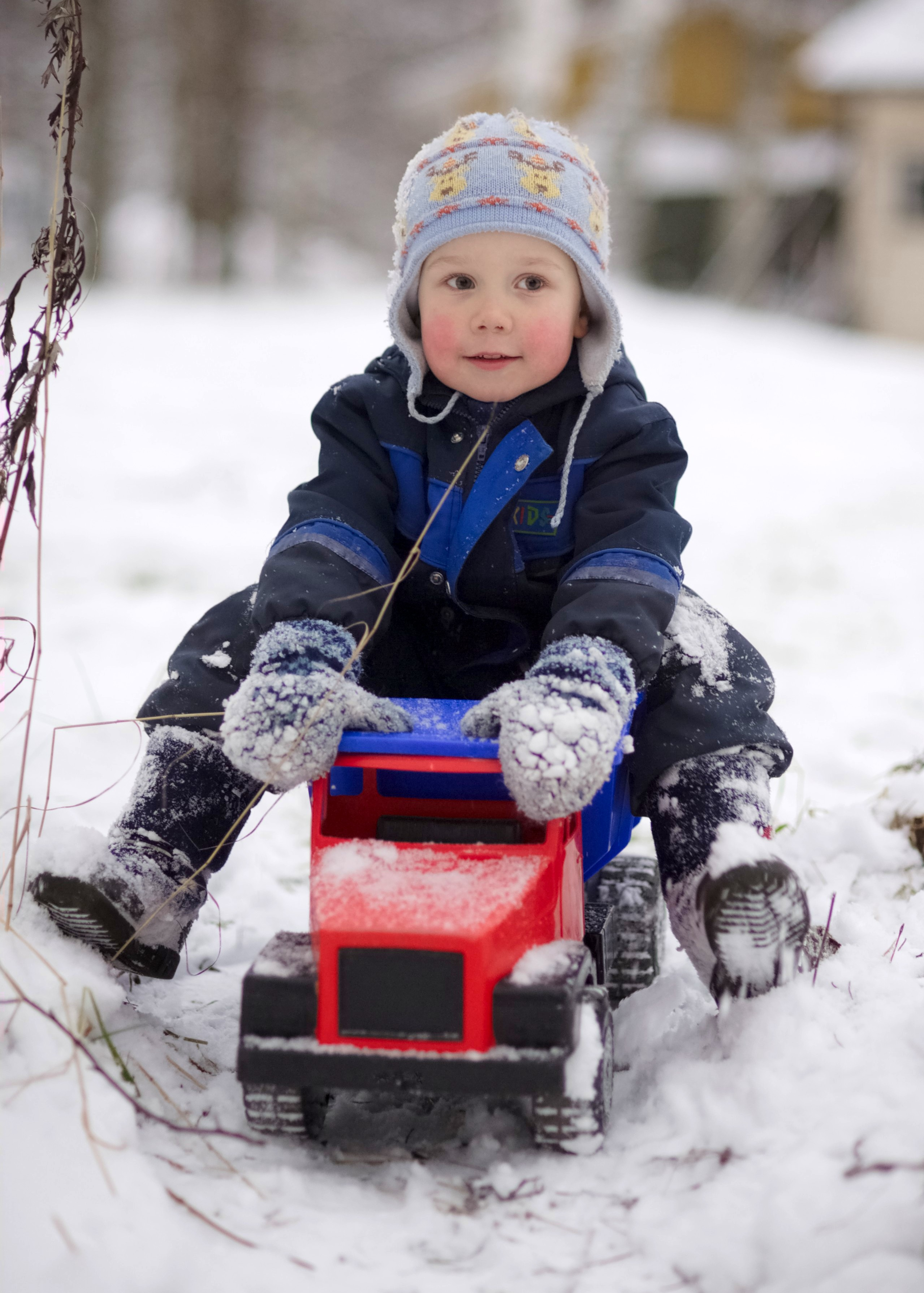 Plasto's "Volvo" Truck